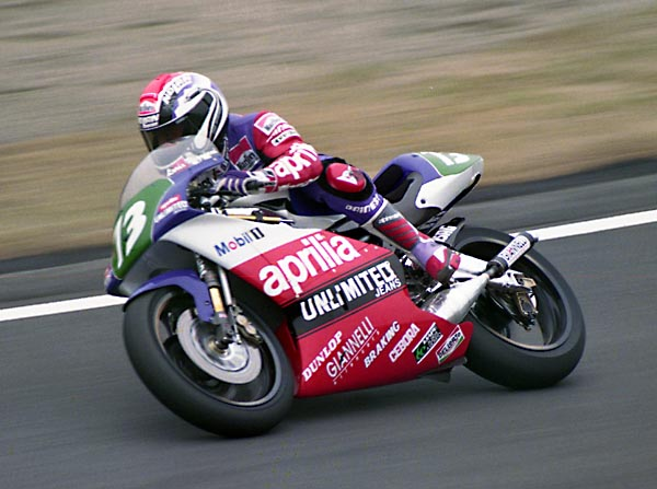 Loris Reggiani, at Japanse Grand Prix 1992